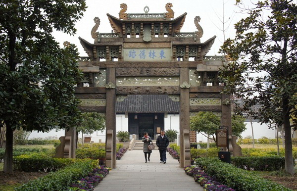 Donglin school in Wuxi